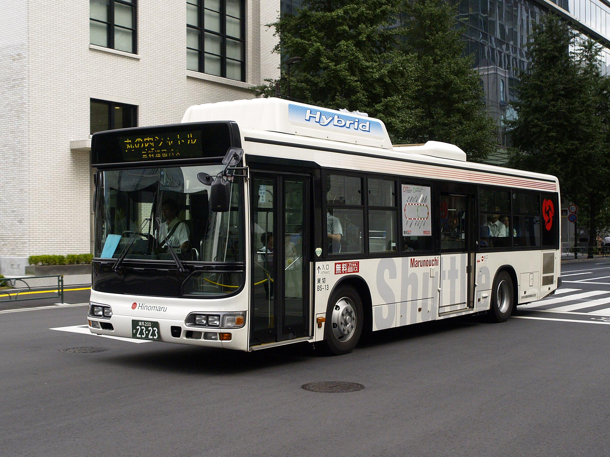 Fleet of Hinomaru Jidosha Kogyo, for "Marunouchi Shuttle" since 2010. Model: Hino Blue Ribbon City Hybrid BJG-HU8JMFP License plate: TKN200 KA2323 Place: Marunouchi, Chiyoda Ward, Tokyo Japan